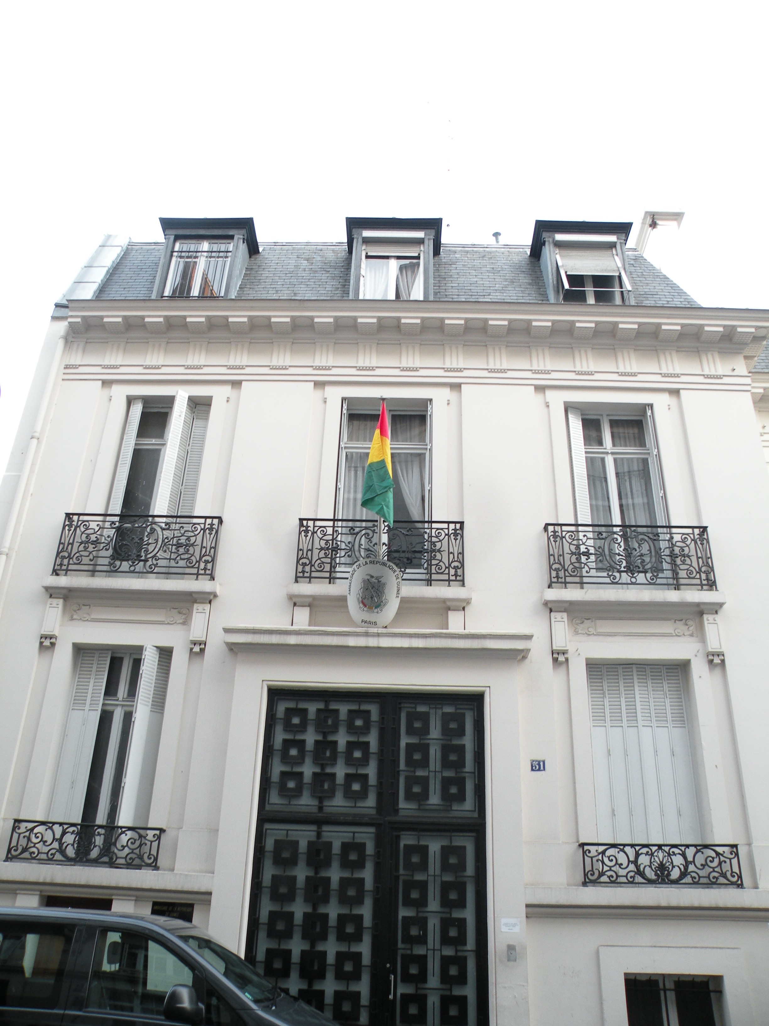 Guinean embassy in France, Paris